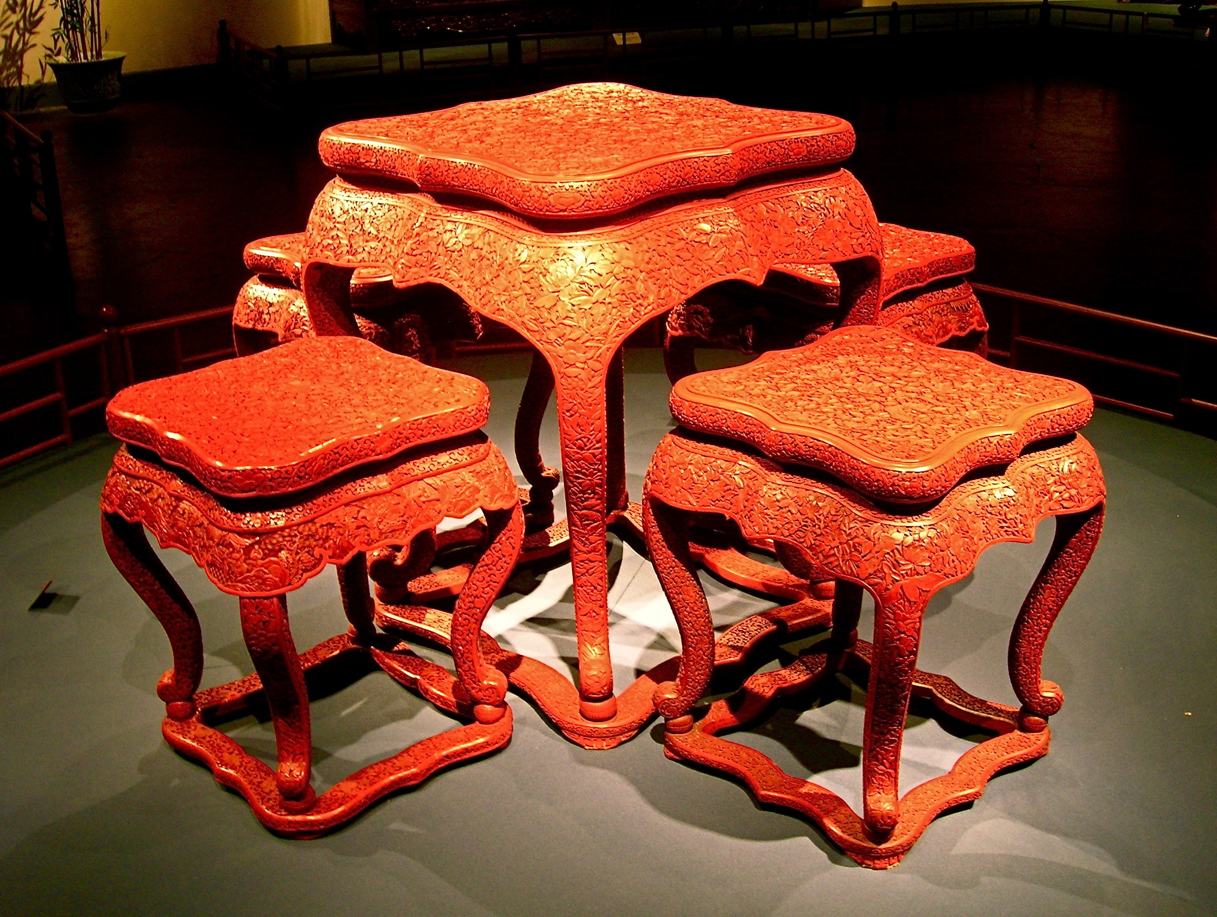 Carved Wooden Table at the Shanghai Museum